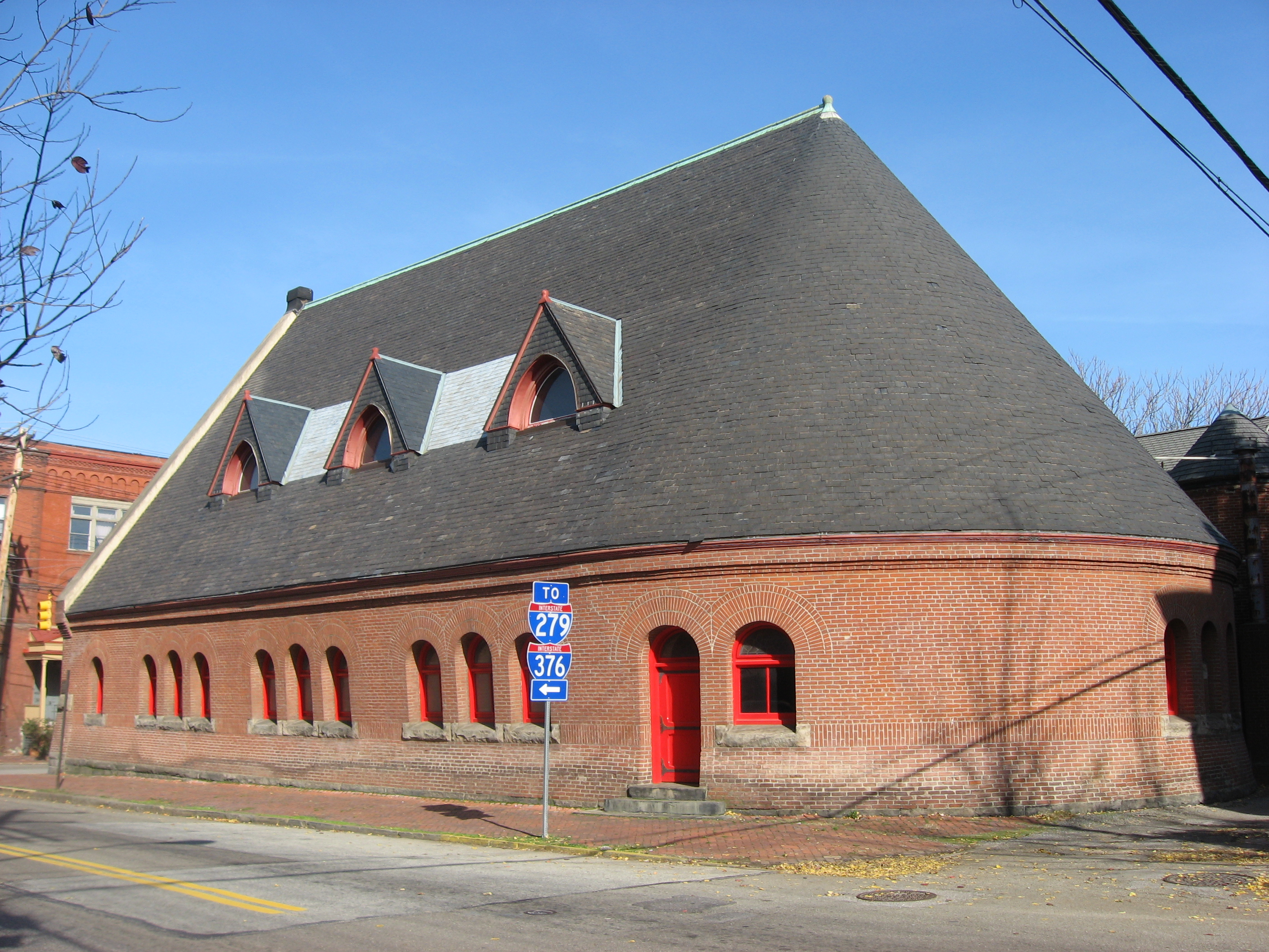 Rear and western side of Emmanuel Episcopal Church, located at the intersection of North and Allegheny Streets in Pittsburgh, Pennsylvania, United States. Built in 1885 according to a design created personally by Henry Hobson Richardson, the church has been declared a National Historic Landmark.